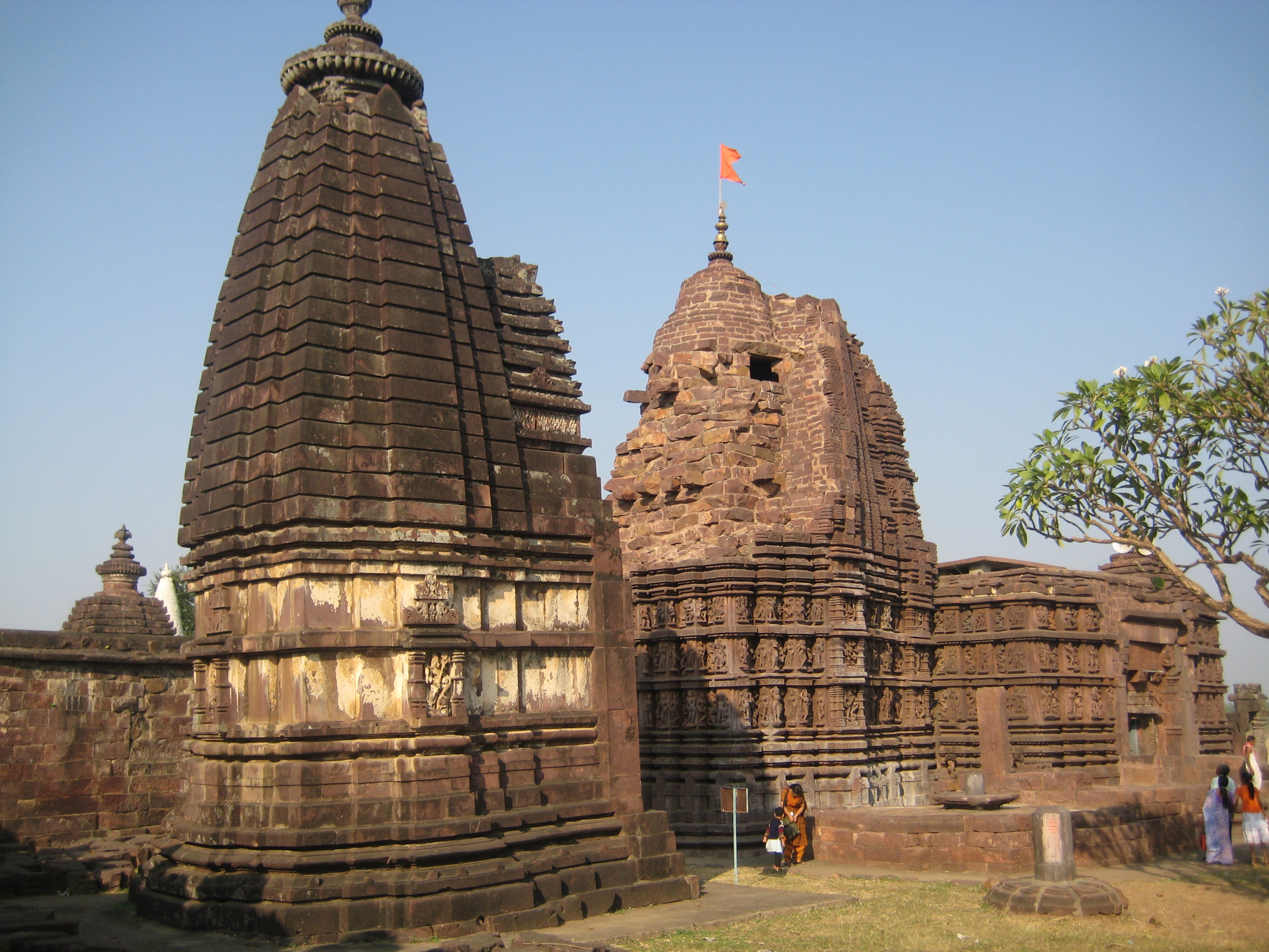 Group of ancient temples called Markandeshwar on the bank of Vainganga river in Chamorshi block of Gadchiroli district in Maharashtra state of India